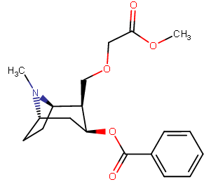 2-((2-methoxy-2-oxoethoxy)methyl) cocaine analogue from Carroll patent (U.S. Patent 6,479,509)